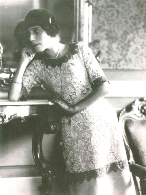 Young Amalia Guglielminetti